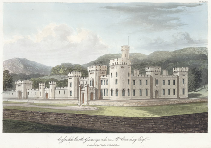 A view of Cyfarthfa Castle with mountains in the background.